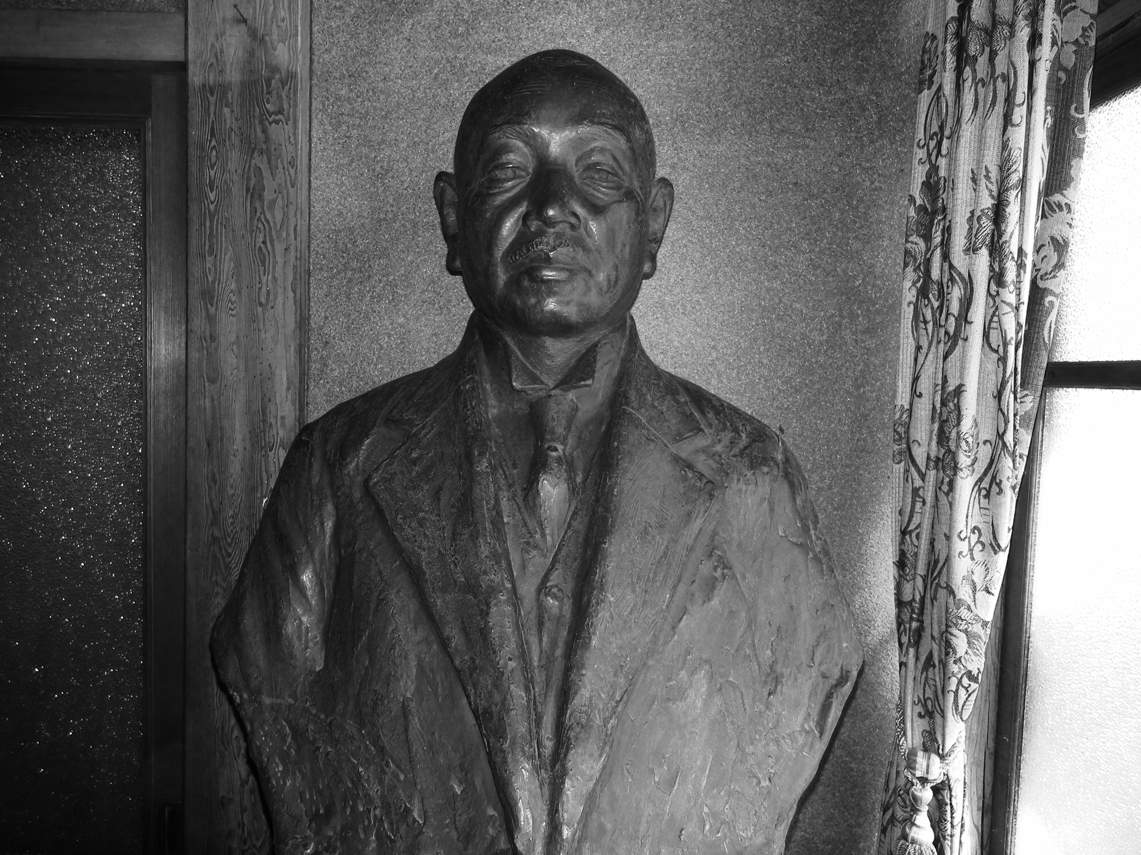 Dr. Sugiura which made an effort for an Schistosoma japonicum disease